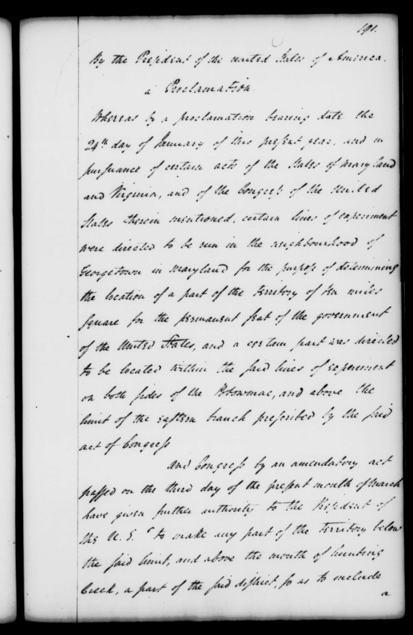 Proclamation written by President George Washington on March 30, 1791, specifying the boundaries of the proposed Federal capital, Washington D.C.